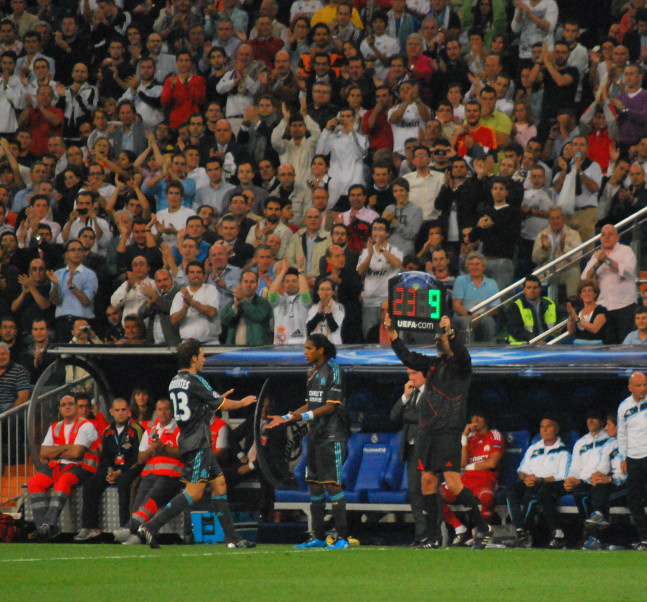 Champions League Real Madrid 3 - O.Marsella 0 30/09/09